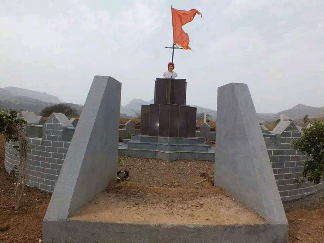 Statue of Naik Raghoji Rao Bhangre in Ahmadnagar city, Maharashtra